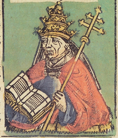 Illustration from the Nuremberg Chronicle (Latin copy in Sao Paulo)